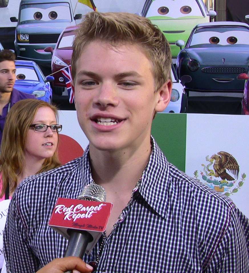 Kenton Duty at the world premiere for Cars 2 in Hollywood Heights, Los Angeles, CA in June